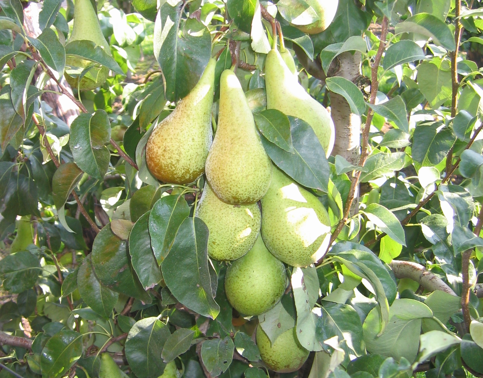 Fruits od Conference Pear on tree